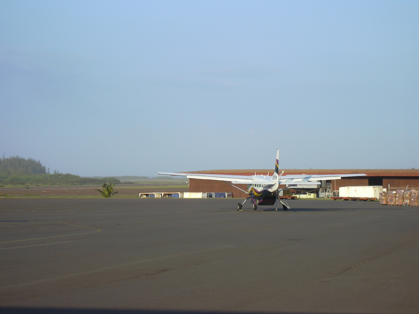 Pacific wings. Location: Maui, Kahului